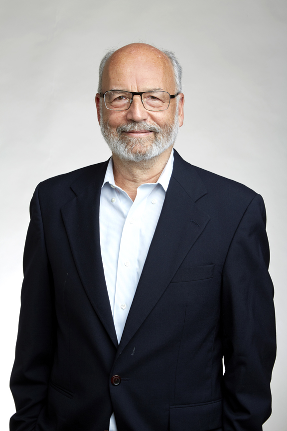 Israeli cryptographer Adi Shamir at the Royal Society admissions day in London, July 2018 Attribution: The Royal Society